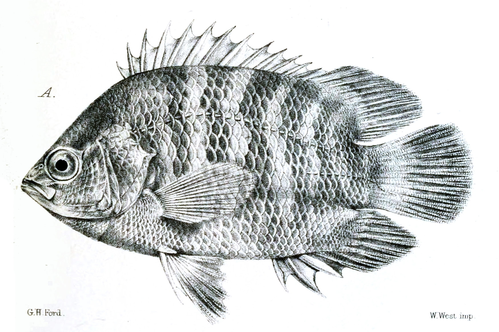 Pristolepis fasciata] (Bleeker, 1851)